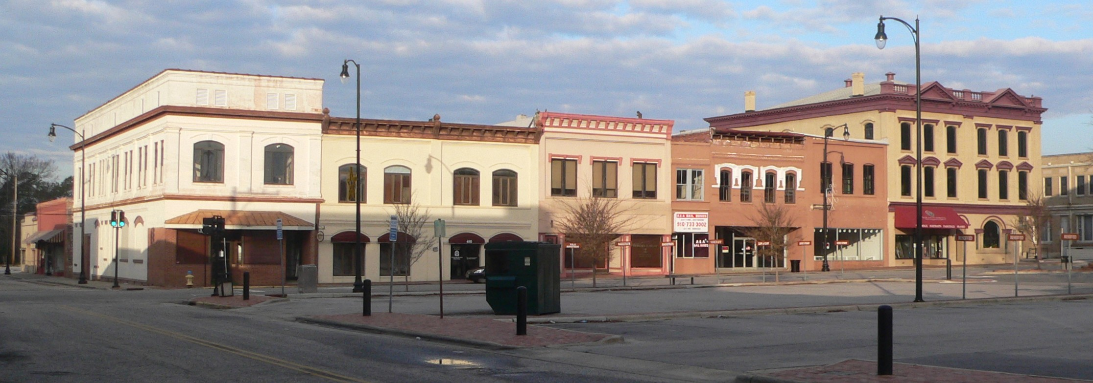 Downtown Lumberton, North Carolina: west side of 400s block of North Elm Street. The camera is on the south side of 4th Street, which runs east-west; the three-story building at right is at the southwest corner of 5th and Elm. All buildings in the photo are included in in the Lumberton Commercial Historic District, listed in the National Register of Historic Places.